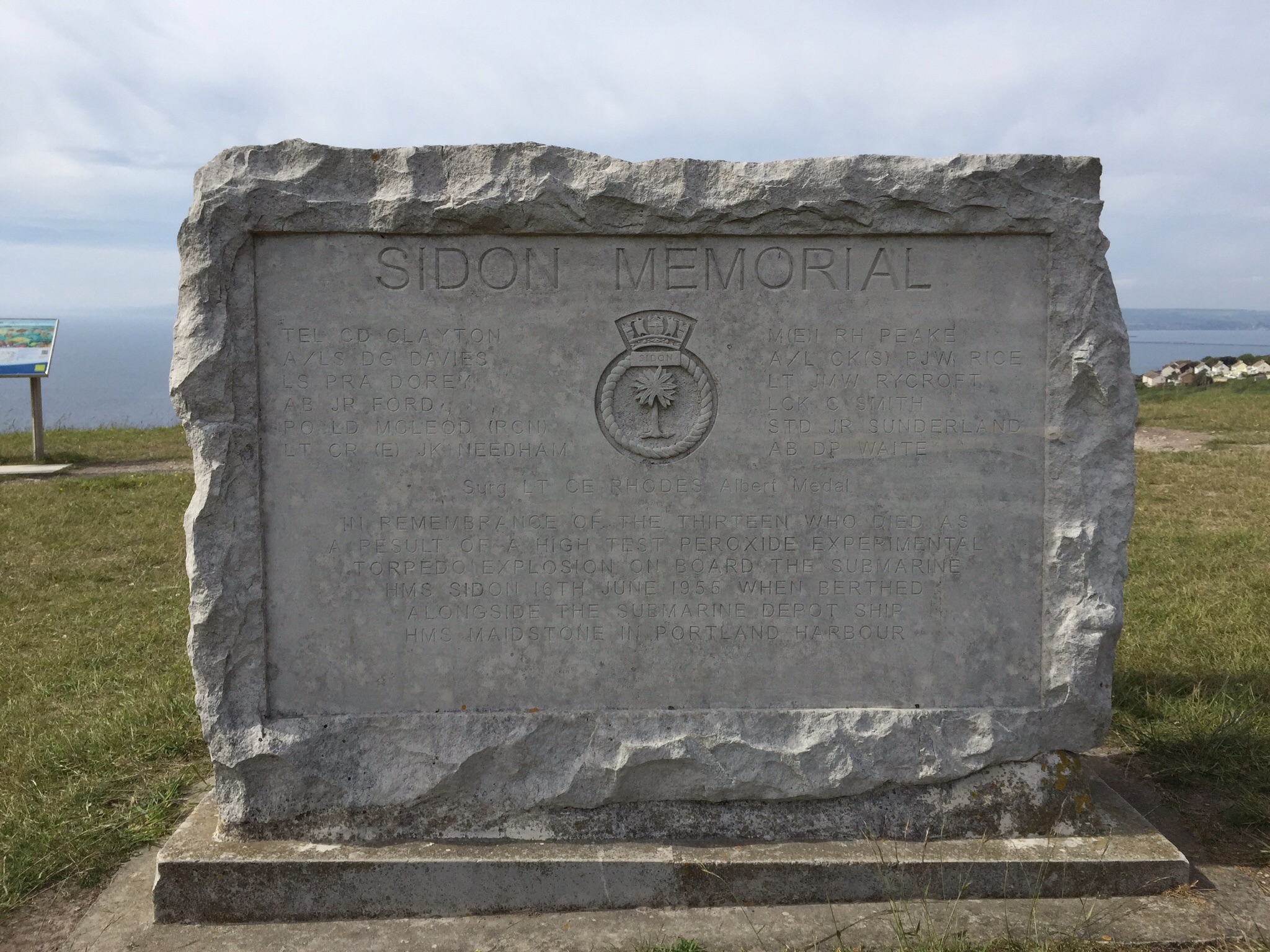 The memorial to those lost on board the HMS Sidon on the Isle of Portland in 1955